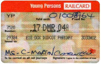 Fifth APTIS version of the Young Persons Railcard. Scanned from my own collection.